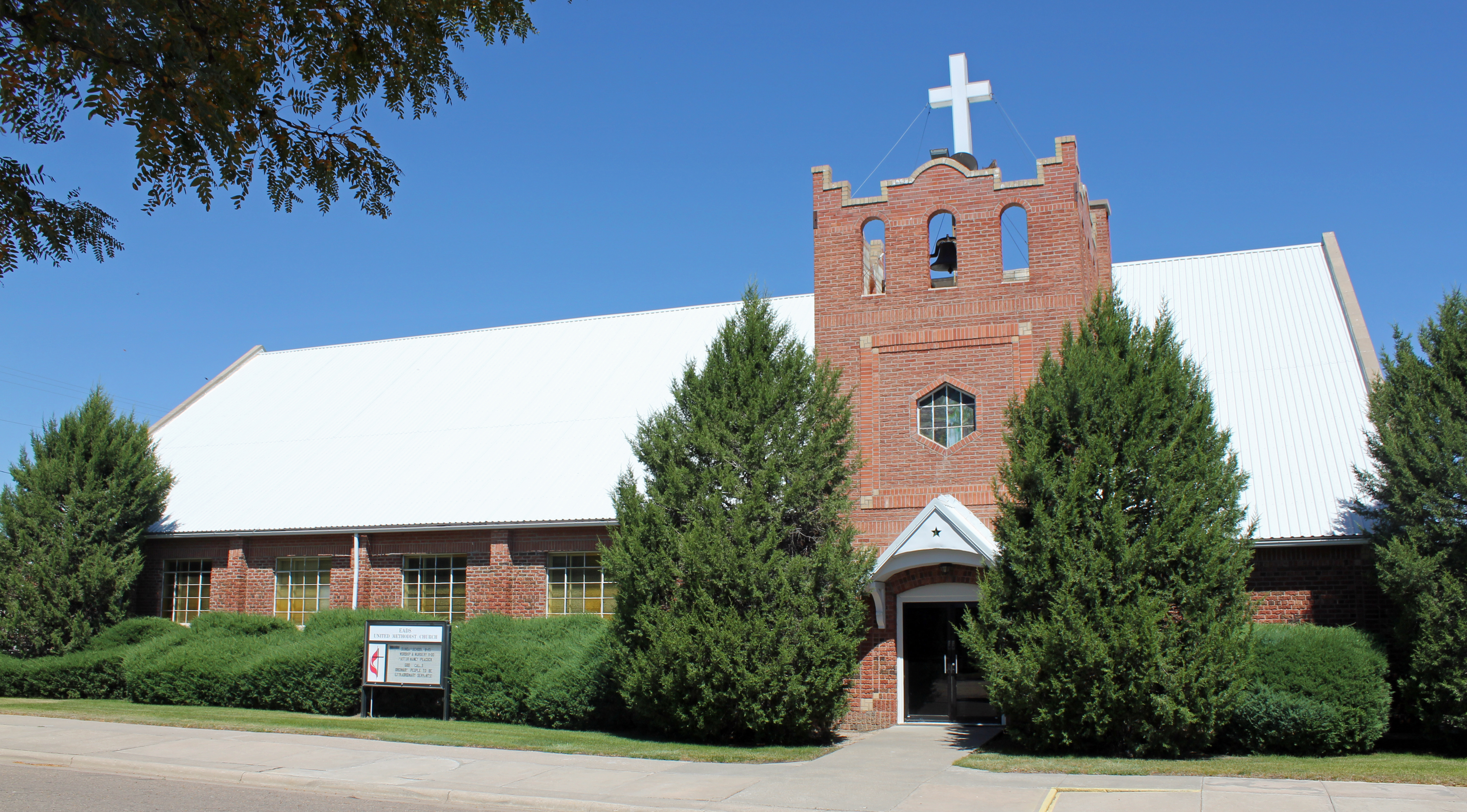 The Eads Community Church, located at 110 East 11th Street in Eads, Colorado. The property is listed on the National Register of Historic Places.